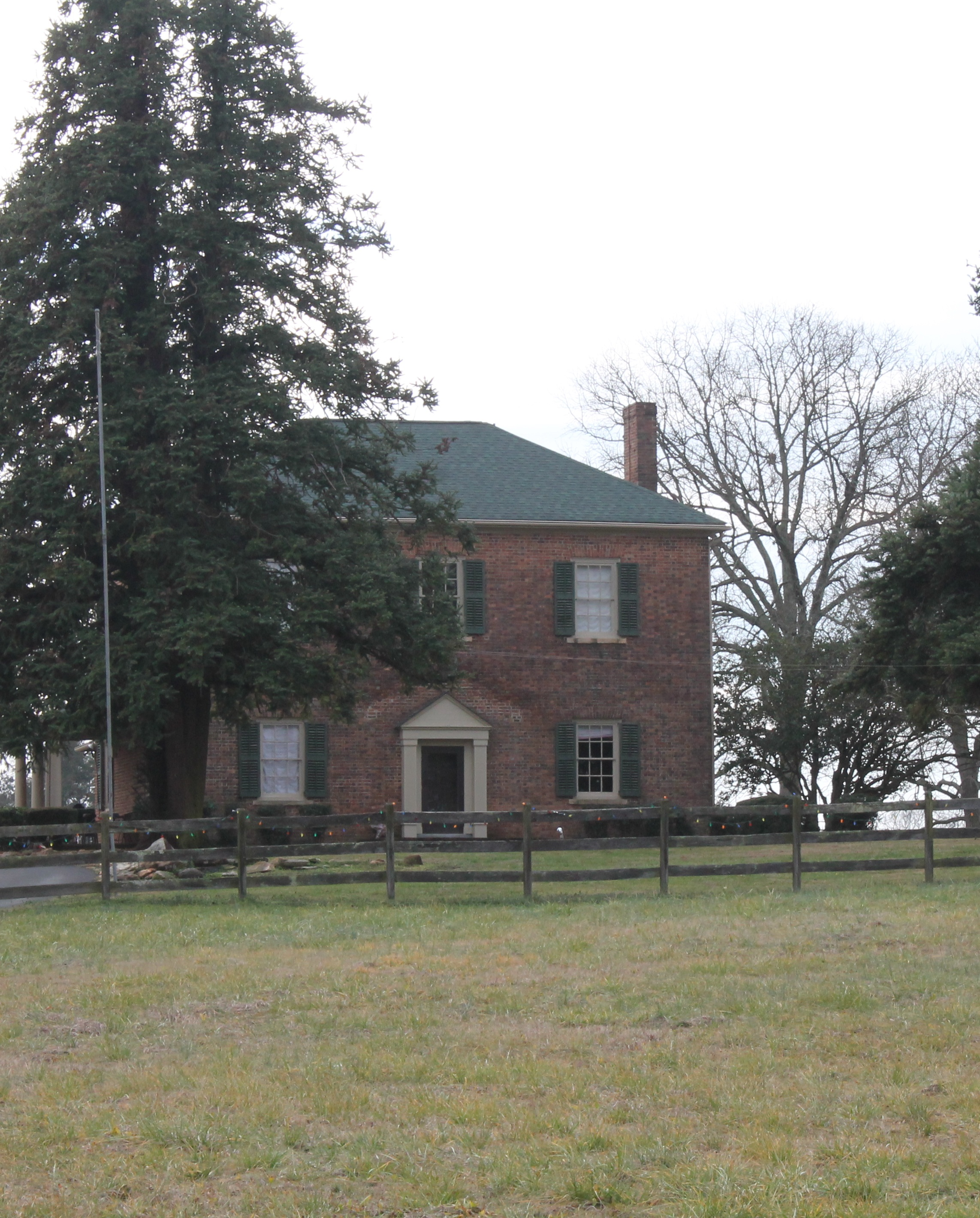 A brick Federal-style plantation house near Mooresville, North Carolina. Listed on the NRHP.